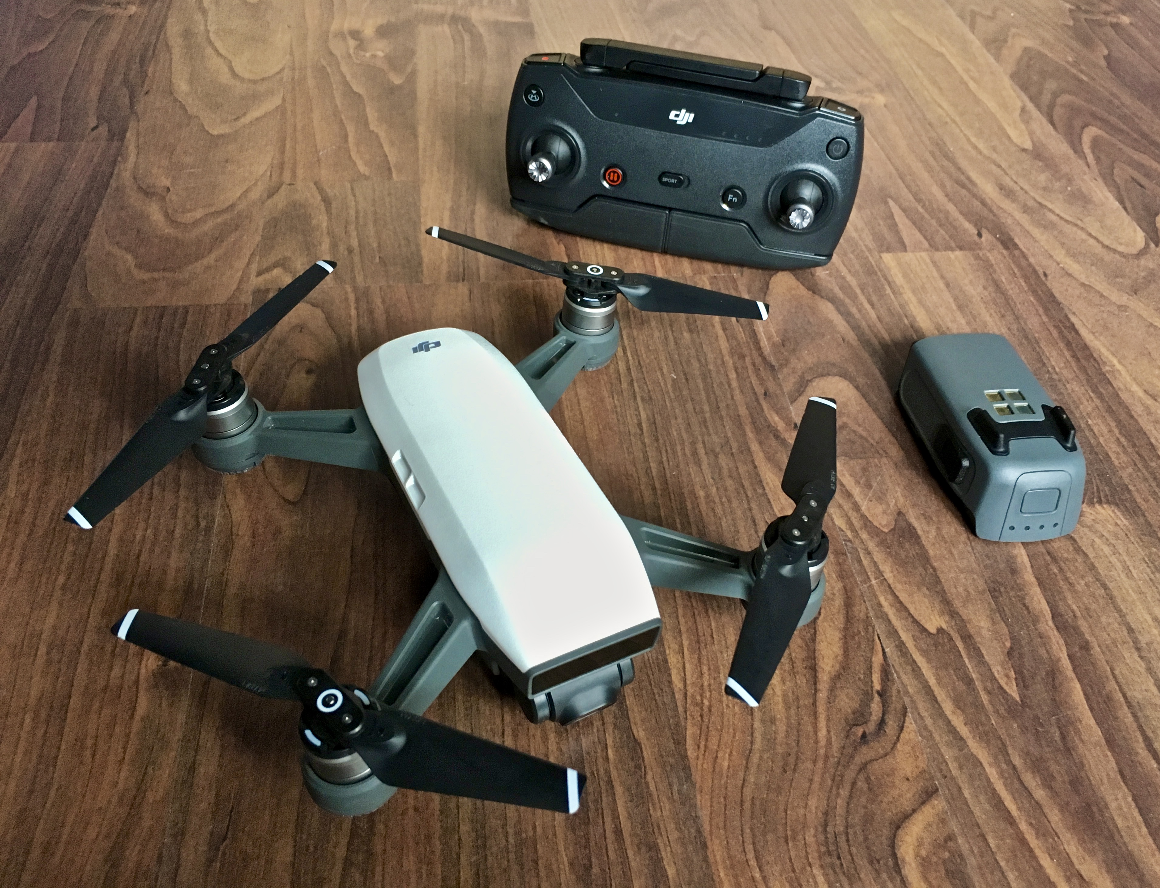 DJI Spark with its controller and an extra battery